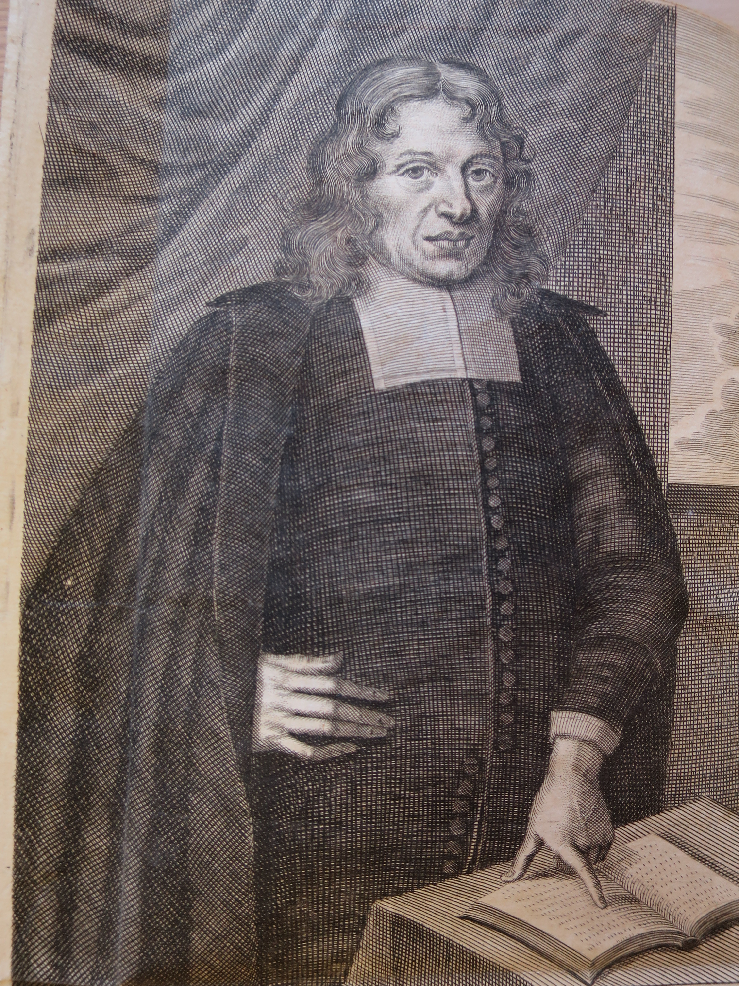 Johannes Melchior 1646-1689, theologian Scholar at Herborn